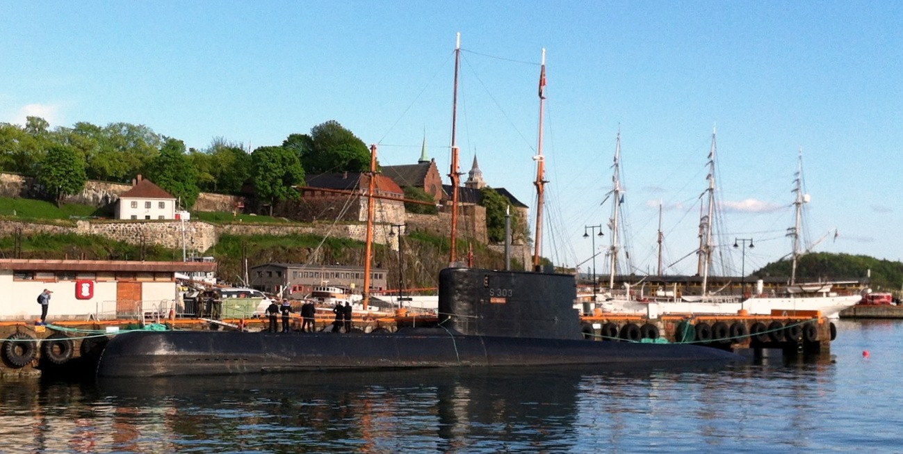 KNM Utvær, submarine of the Norwegian Navy